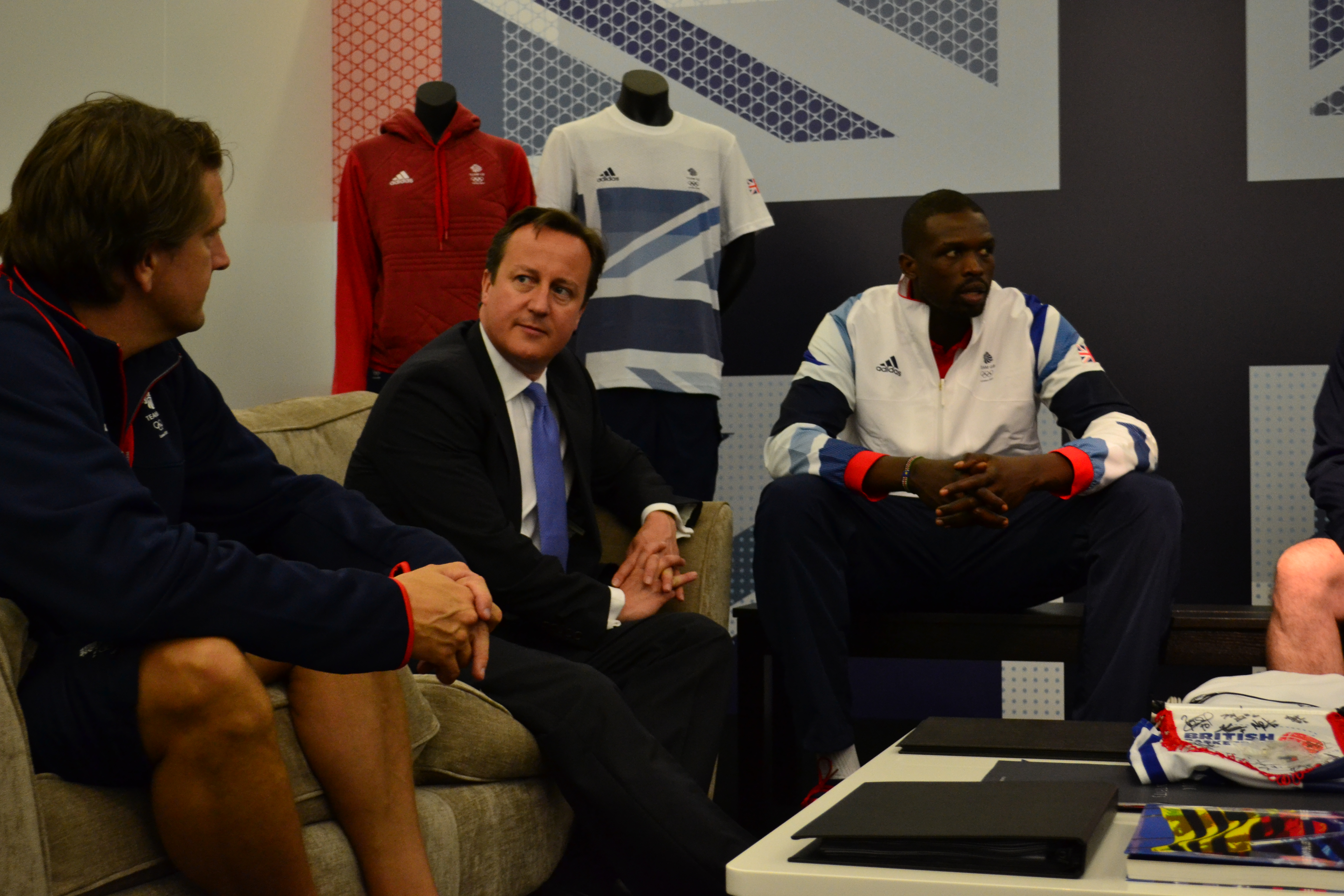 For UK Government Olympics news, videos and media resources visit .uk/ and follow @2012GovUK on twitter. Credit information for this image: Please credit Government Olympic Communications in all instances ( .uk/)